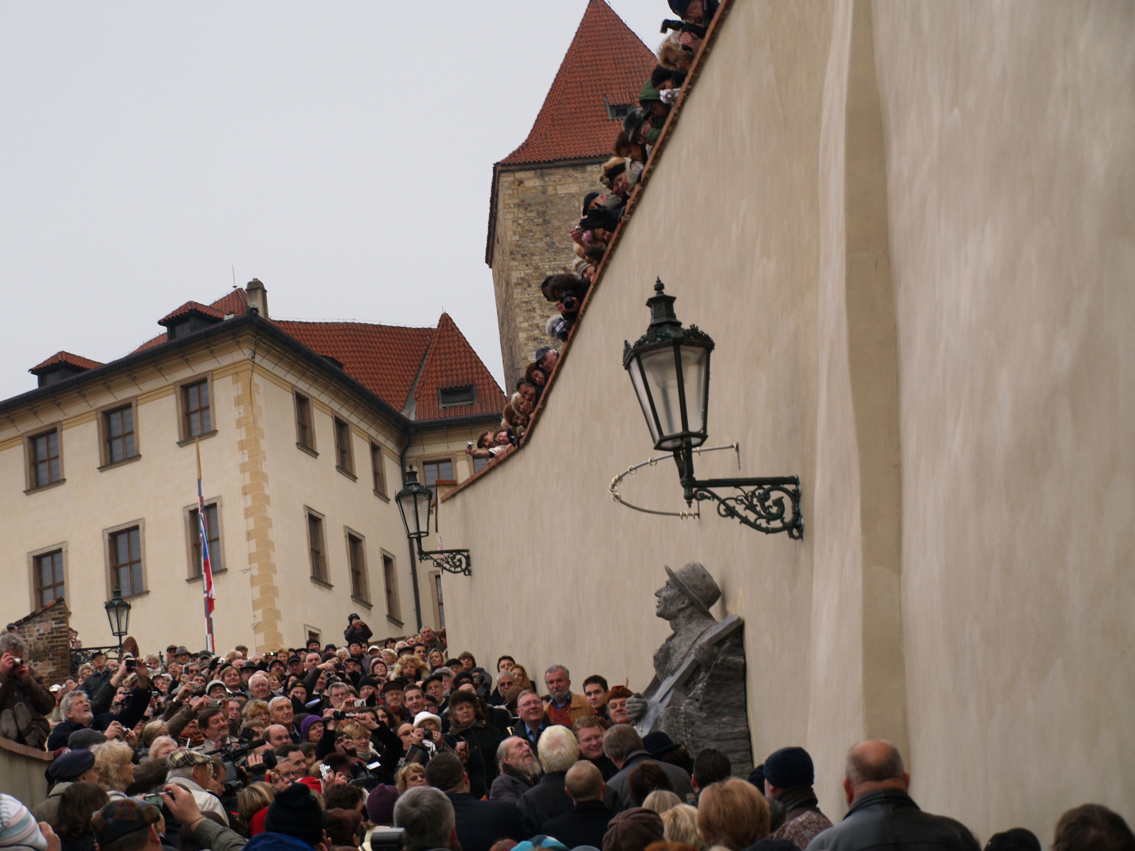 Inauguration of sculpture of Czech musician Karel Hašler; located on the Prague’s Old Castle Stairs, sculptor Stanislav Hanzík